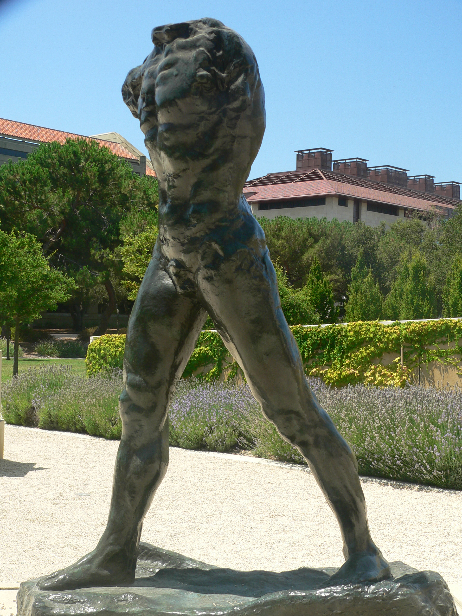 Copyright © 2006 David Monniaux, Location: Stanford Museum, Iris & B. Gerald Cantor Center for Visual Arts